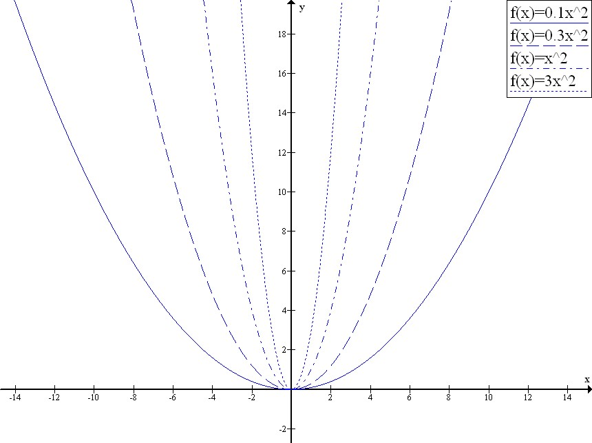 Function ax^2, a={0.1,0.3,1,3}